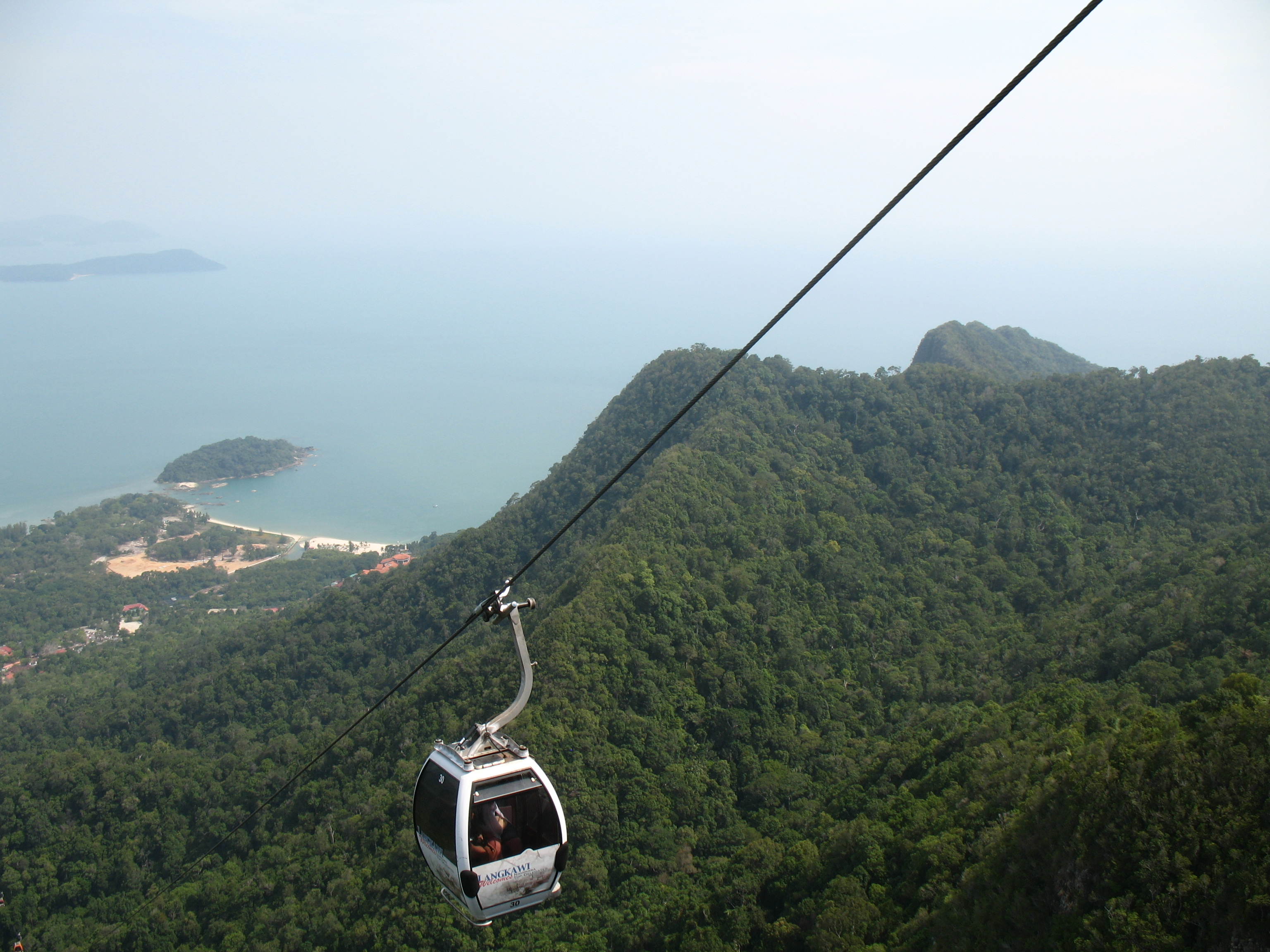 View of a gondola on Langkawi Cable Car